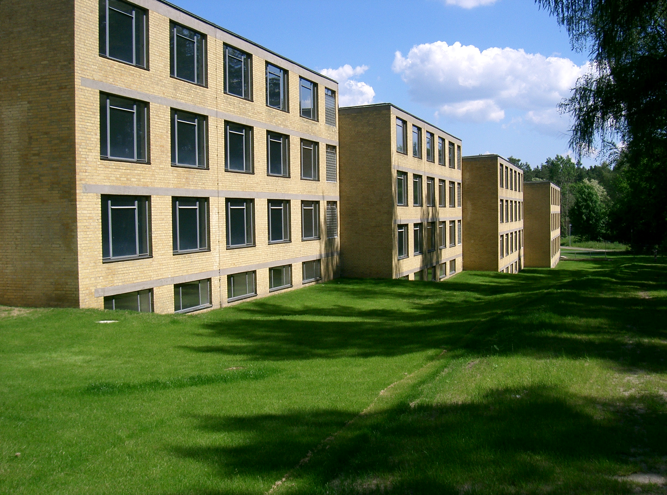 Building complex of the former federal school of the Allgemeinen Deutschen Gewerkschaftsbundes (engl. General German Confederation of Trade Unions) in Bernau bei Berlin. Here the student halls (front side).